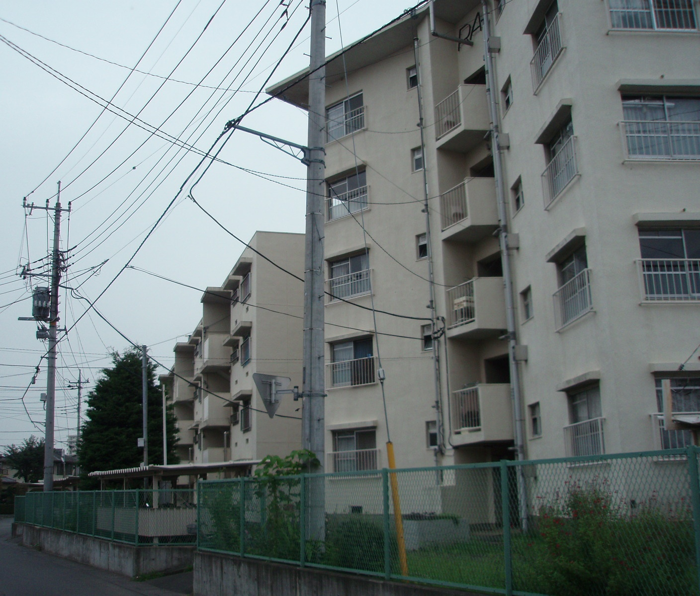 Ooya-ken'ei-jyutaku, predectual apartment in Minuma-ku,Saitama,Saitama Prefecture in Japan.